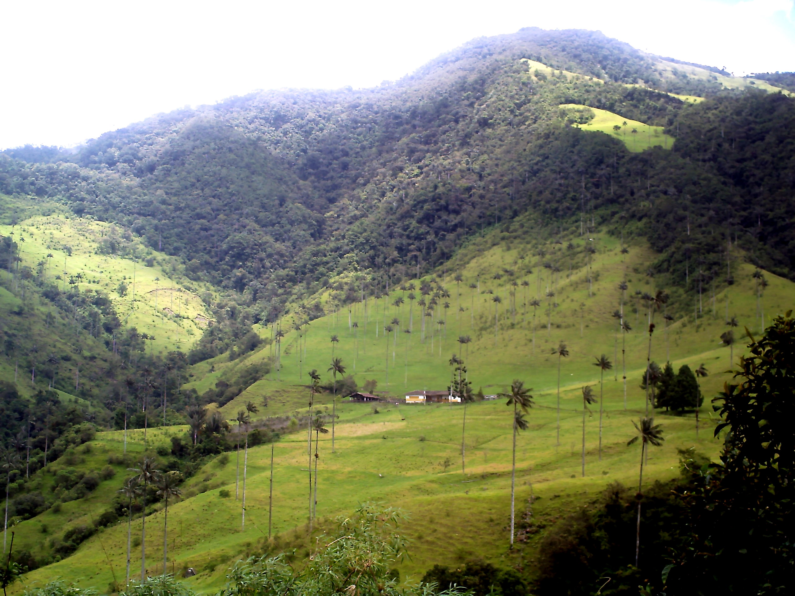 A view of the cocora valley